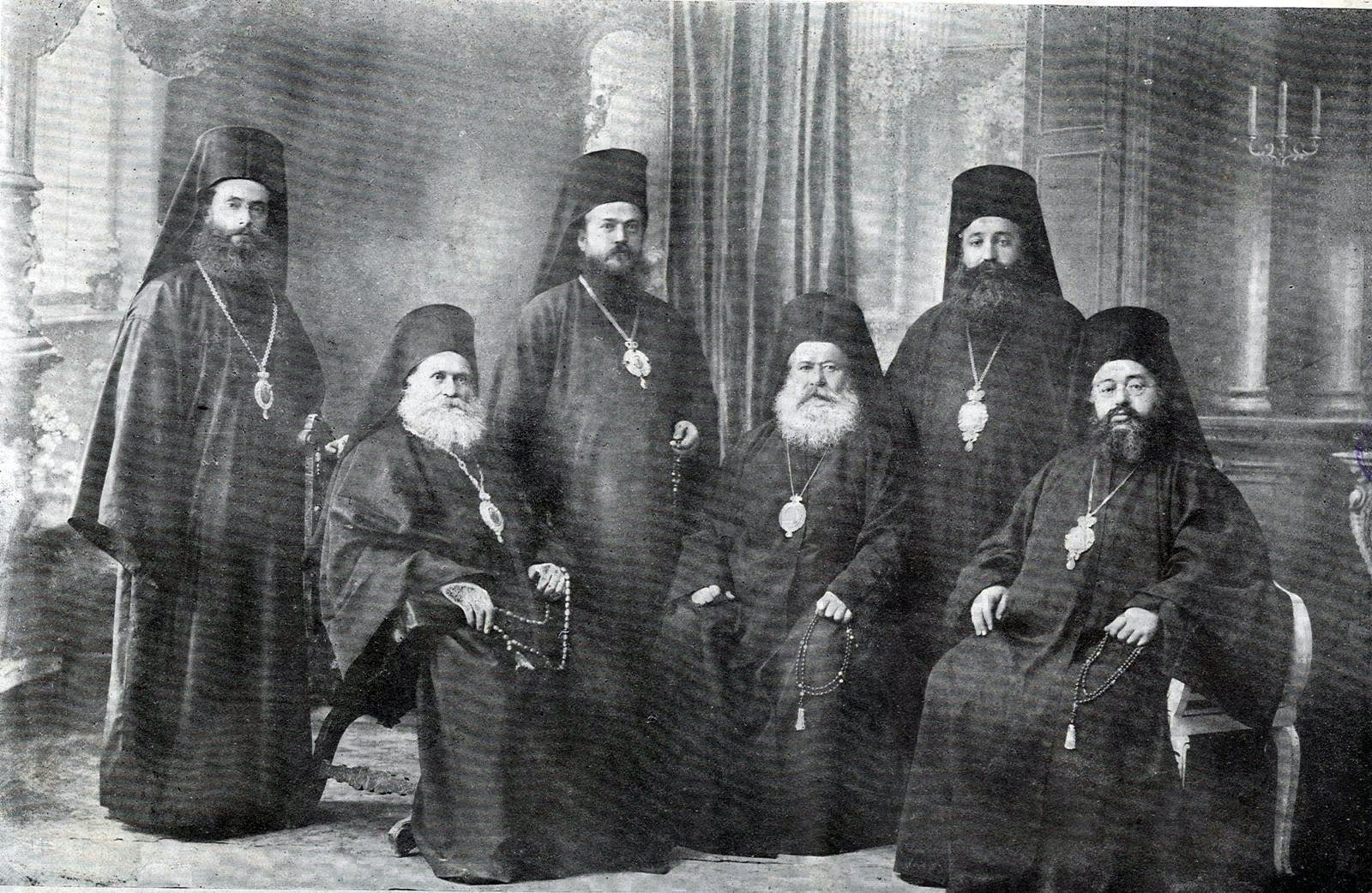 Bulgarian exarchist mitropolites from Macedonia, expelled by serbian and greek authorities